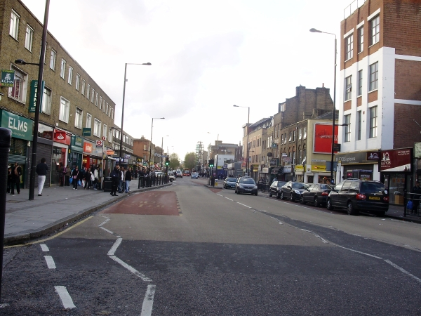 Bethnal Green Road, London